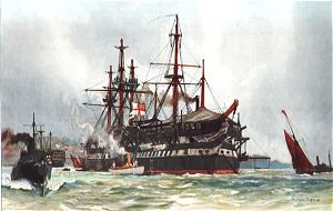 The old Implacable